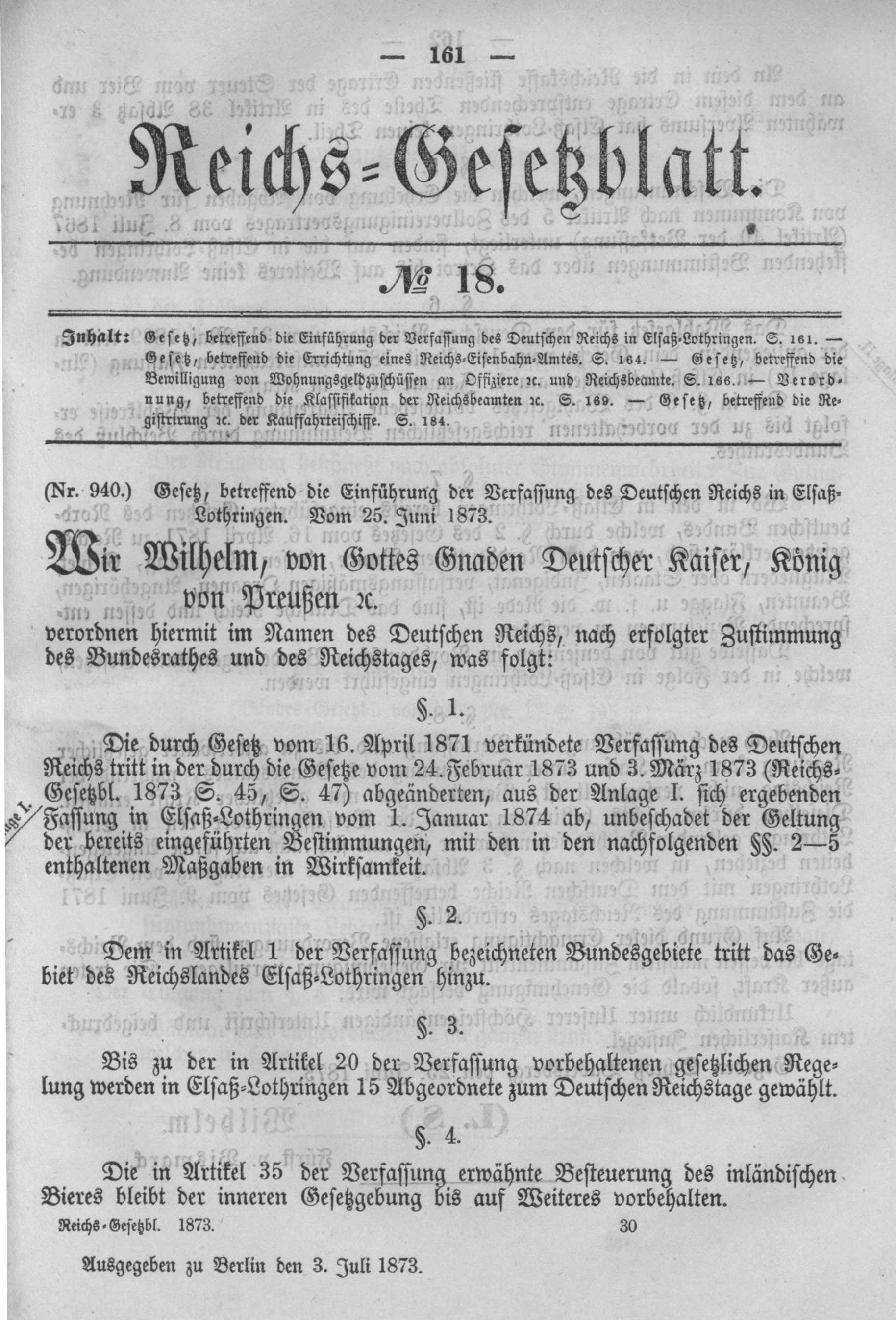 Scan from the Imperial Law Gazette of Germany, 1873.